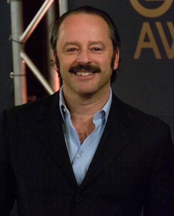 Actor Gil Bellows at the 32nd Genie Awards 2012.